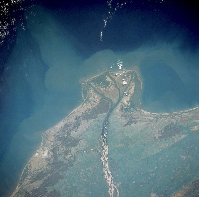 With the Ocean on the top portion of the Image, the actual location of the Guntur City should be on the bottom right side portion of the Image. STS032-72-61 Krishna River, Guntur Region, India "The Krishna River flows eastward across the Deccan Plateau of southern India until it empties through four major distributaries into the Bay of Bengal. The river, with its headwaters in the eastern slopes of the Western Ghats, flows eastward for approximately 800 miles (1300 kilometers) until it bends southward for the last 50 miles (80 kilometers). The Krishna River delta is typical of the wider deltas along the southeast coast of India (also known as the Coromandel Coast). The braided stream channels, broad floodplain, and extensive sandbars suggest that this part of the Krishna River flows through relatively flat terrain and carries substantial amounts of sediment, especially during the monsoon season. The outline of the city of Guntur and nearby, smaller rice-producing towns are visible near the northwest edge of the photograph."